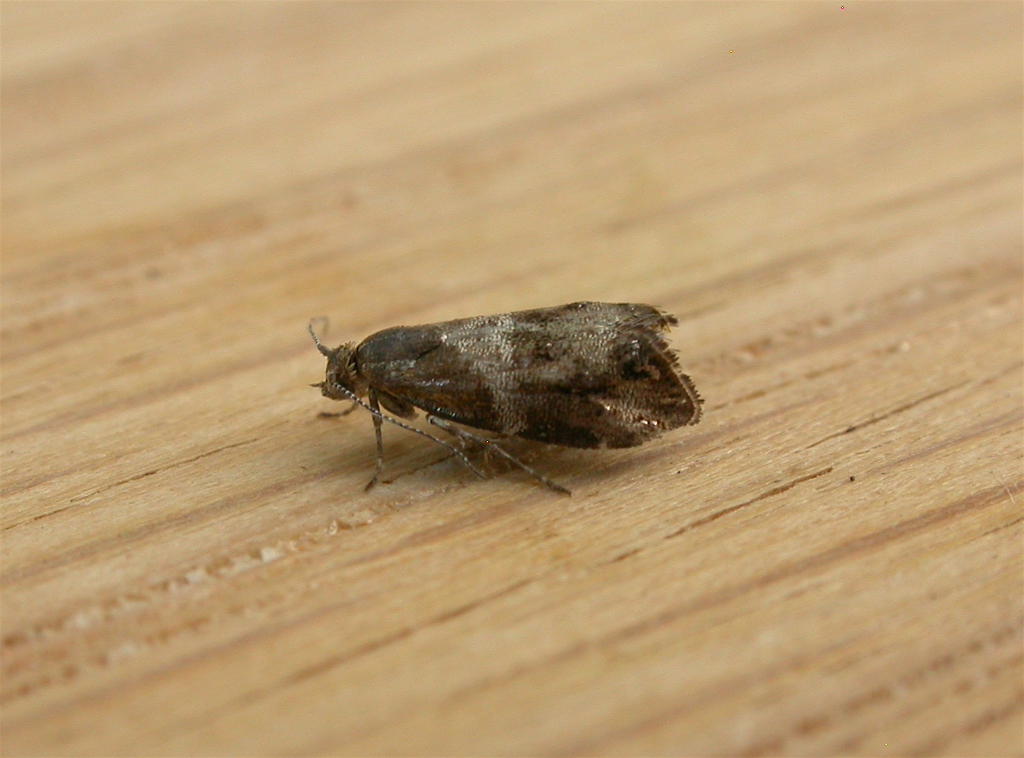 Tebenna micalis (Mann, 1857), to MV light, Aranda, ACT, 25/26 January 2009